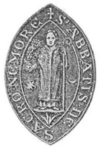 Taken from Revirosco, Holywood: A Forgotten Dumfriesshire Abbey, 1922. Scanned by author of this website.